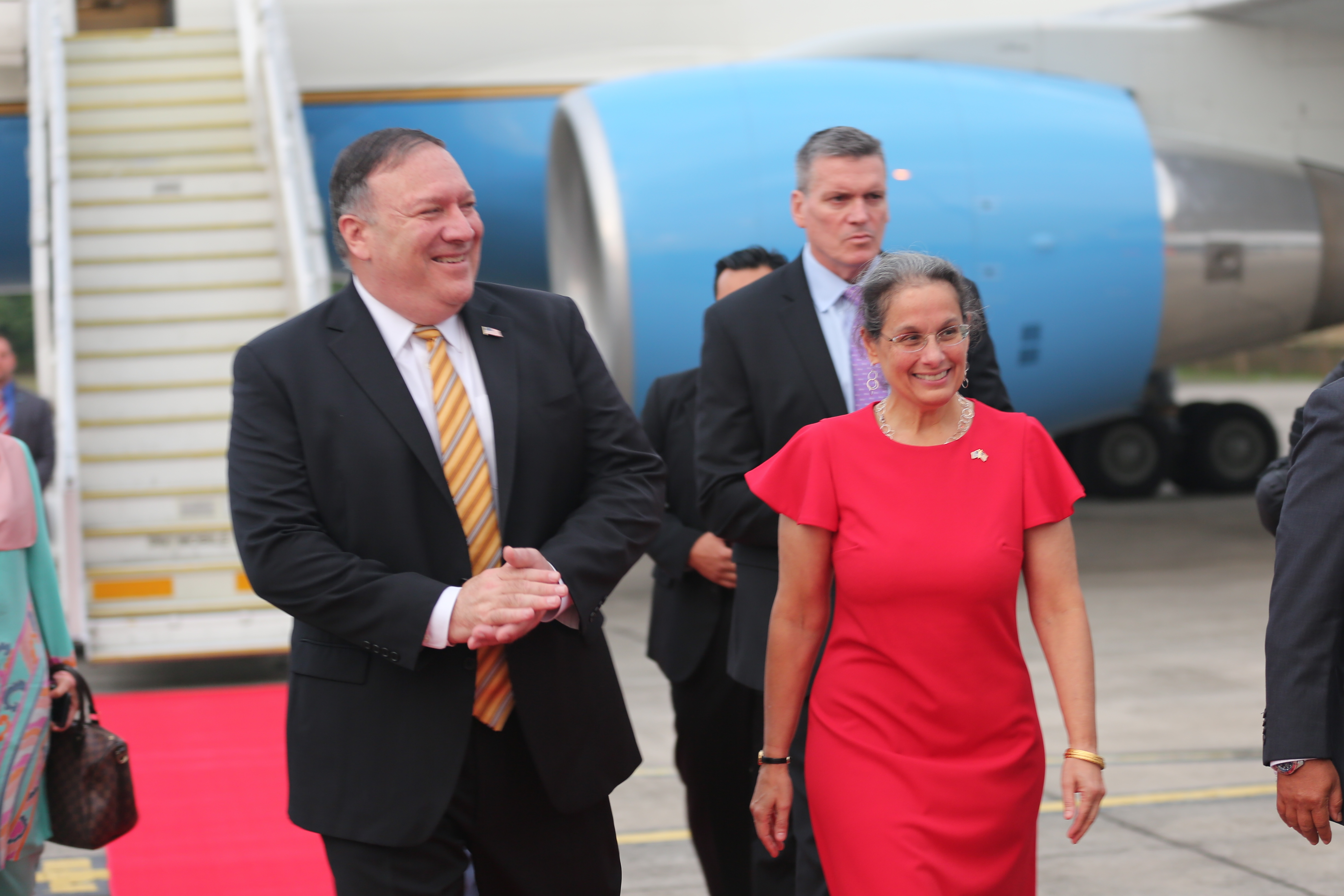 Secretary Michael R. Pompeo arrives in Kuala Lumpur, Malaysia and is greeted by Ambassador Lakhdhir, Malaysian greeters, Protocol officers, interpreters.